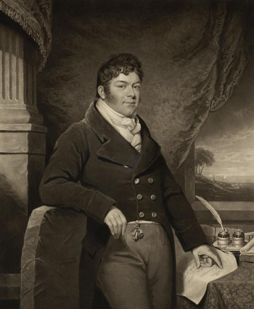 A portrait from the Welsh Portrait Collection at the National Library of Wales. Depicted person: William Madocks – Member of Parliament